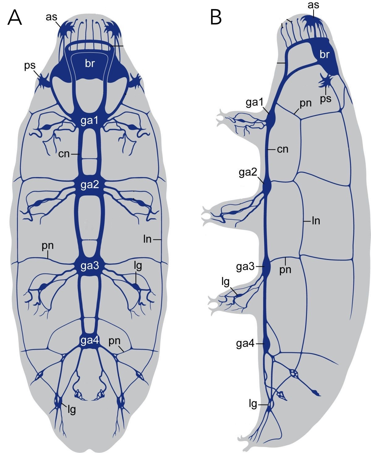 Diagrams showing the organisation of the tardigrade nervous system.